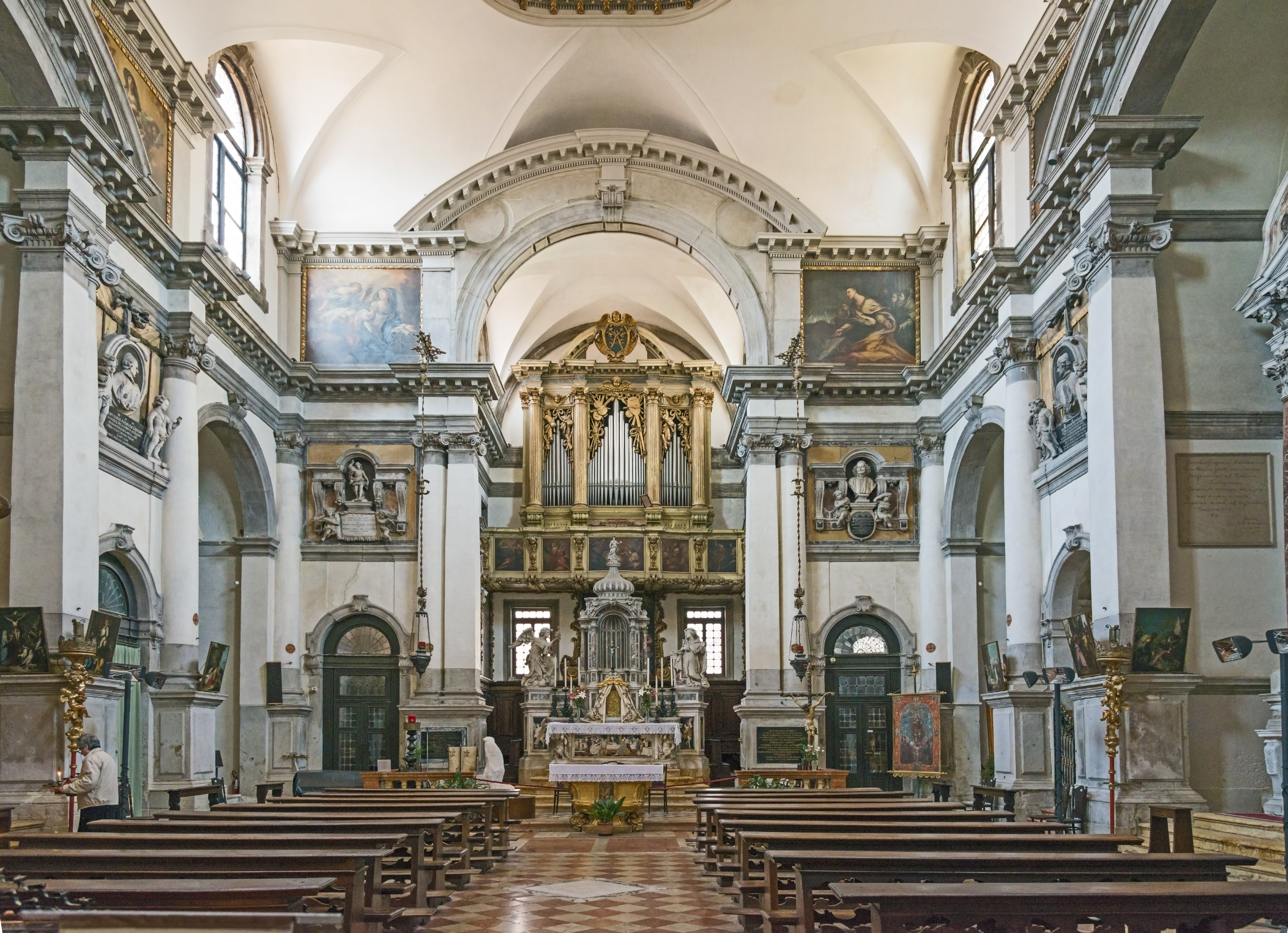 Church Santa Maria del Giglio in Venice Interior.